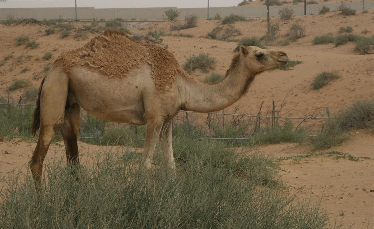 This is a photo of a camel in Dubai, United Arab Emirates on 6 June 2007.